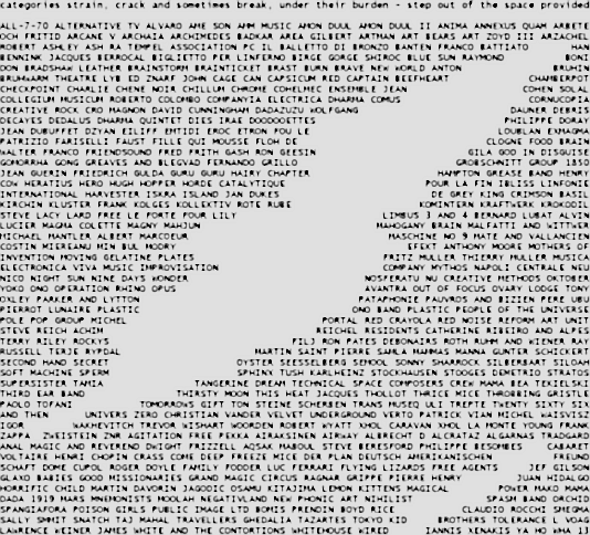 Structured and altered version of the Nurse With Wound list.